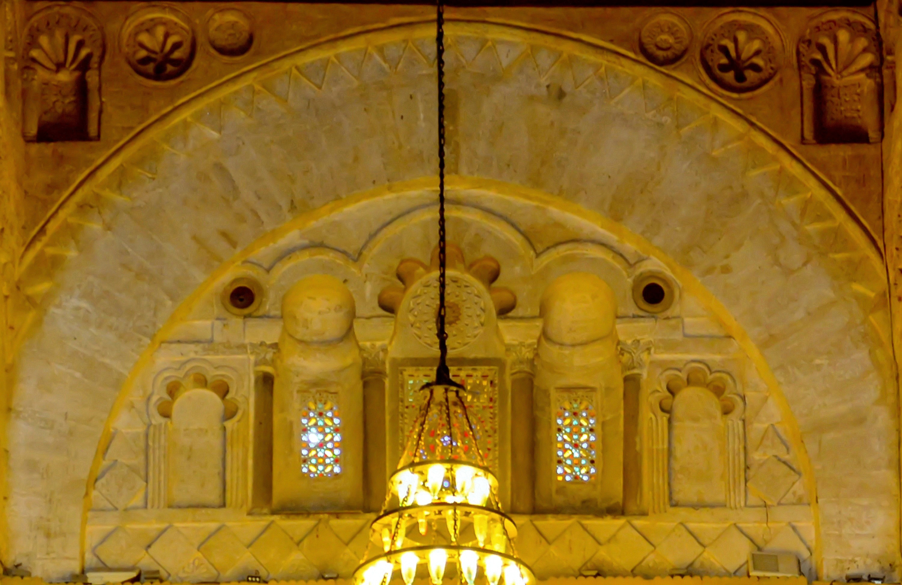 Decoration of the upper part of the mihrab wall in the Great Mosque of Kairouan (in Tunisia).